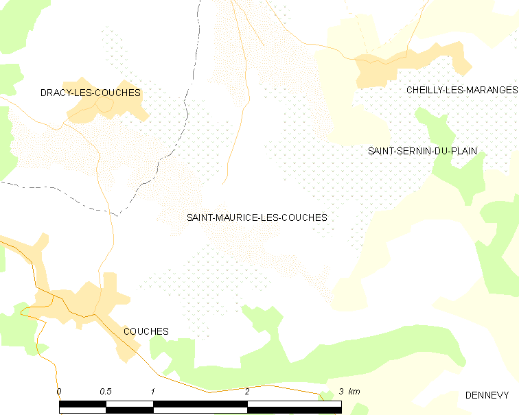 Map of French municipality